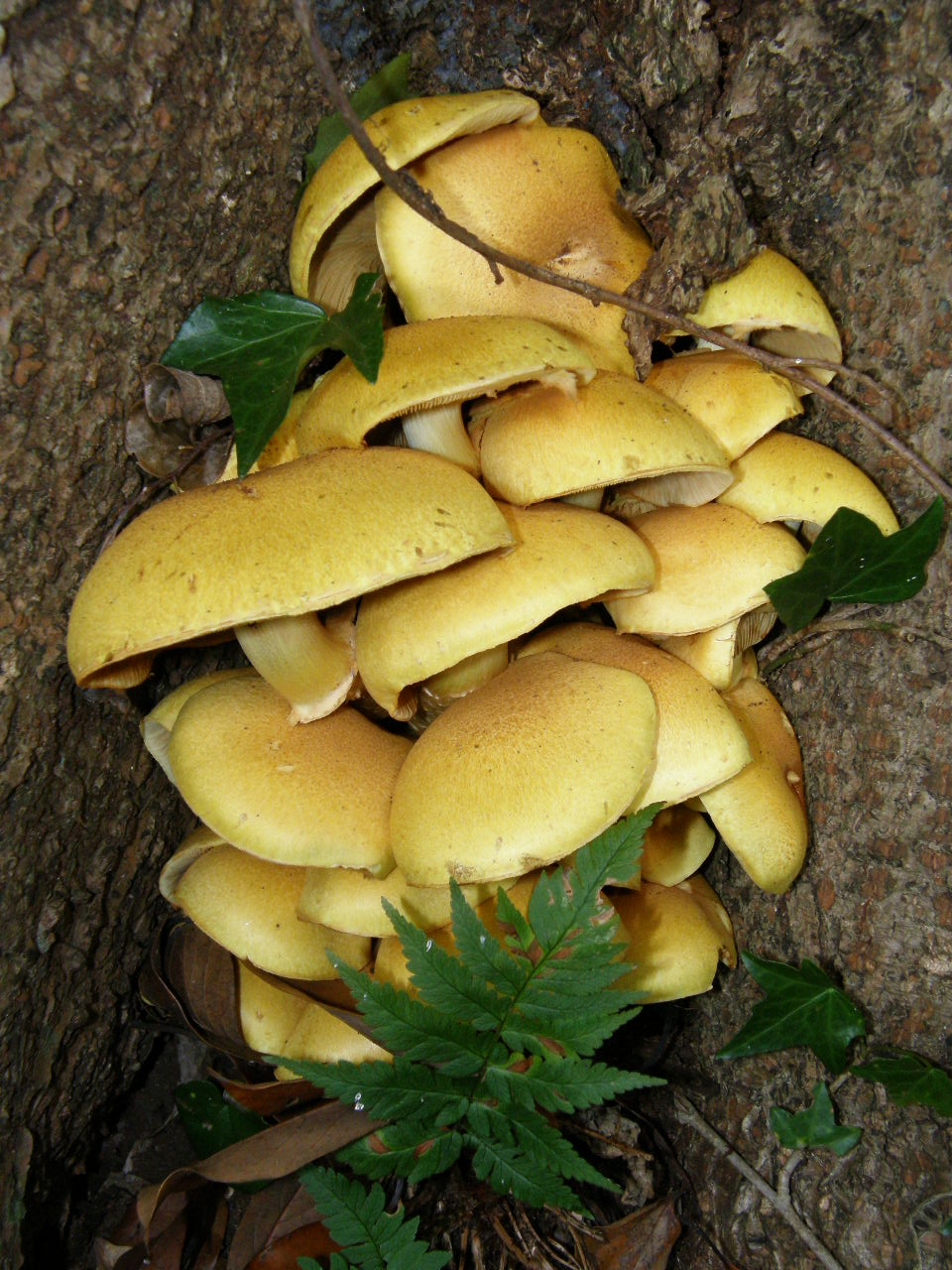 Gymnopilus junonius